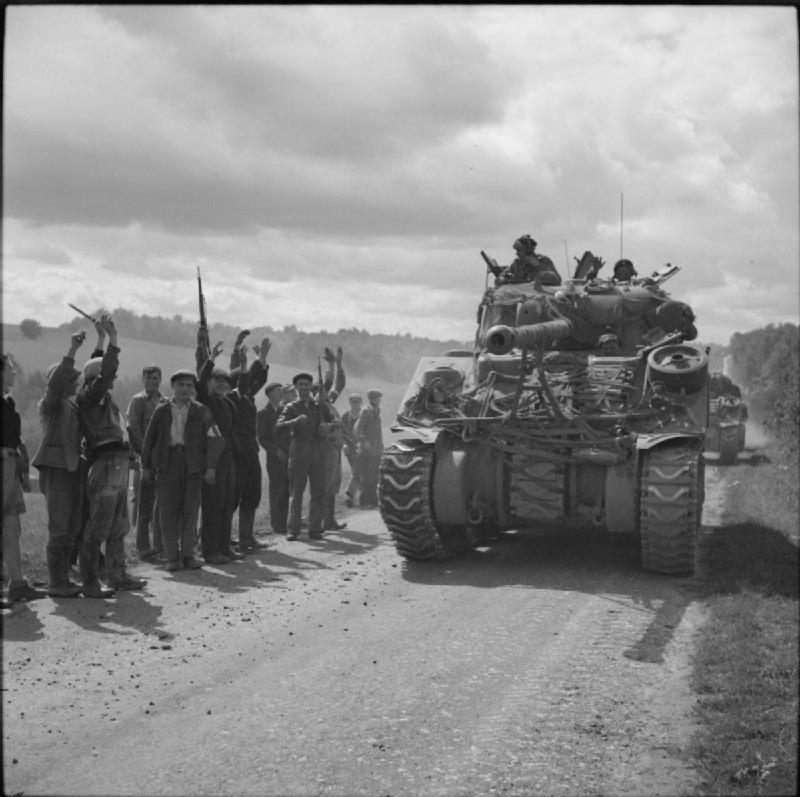 The British Army in North-west Europe 1944-45 Members of the FFI cheer as a Sherman Firefly of Guards Armoured Division passes along a road near Beauvais, 31 August 1944.